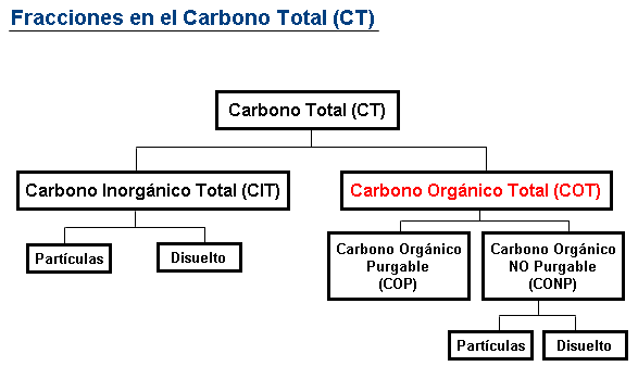 Fractions of Total Carbon (TC): Total Inorganic Carbon and Total Organic Carbon (TOC)